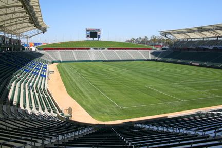 Home Depot Center Stadium, Carson, CA. Photo by Rafael Amado©